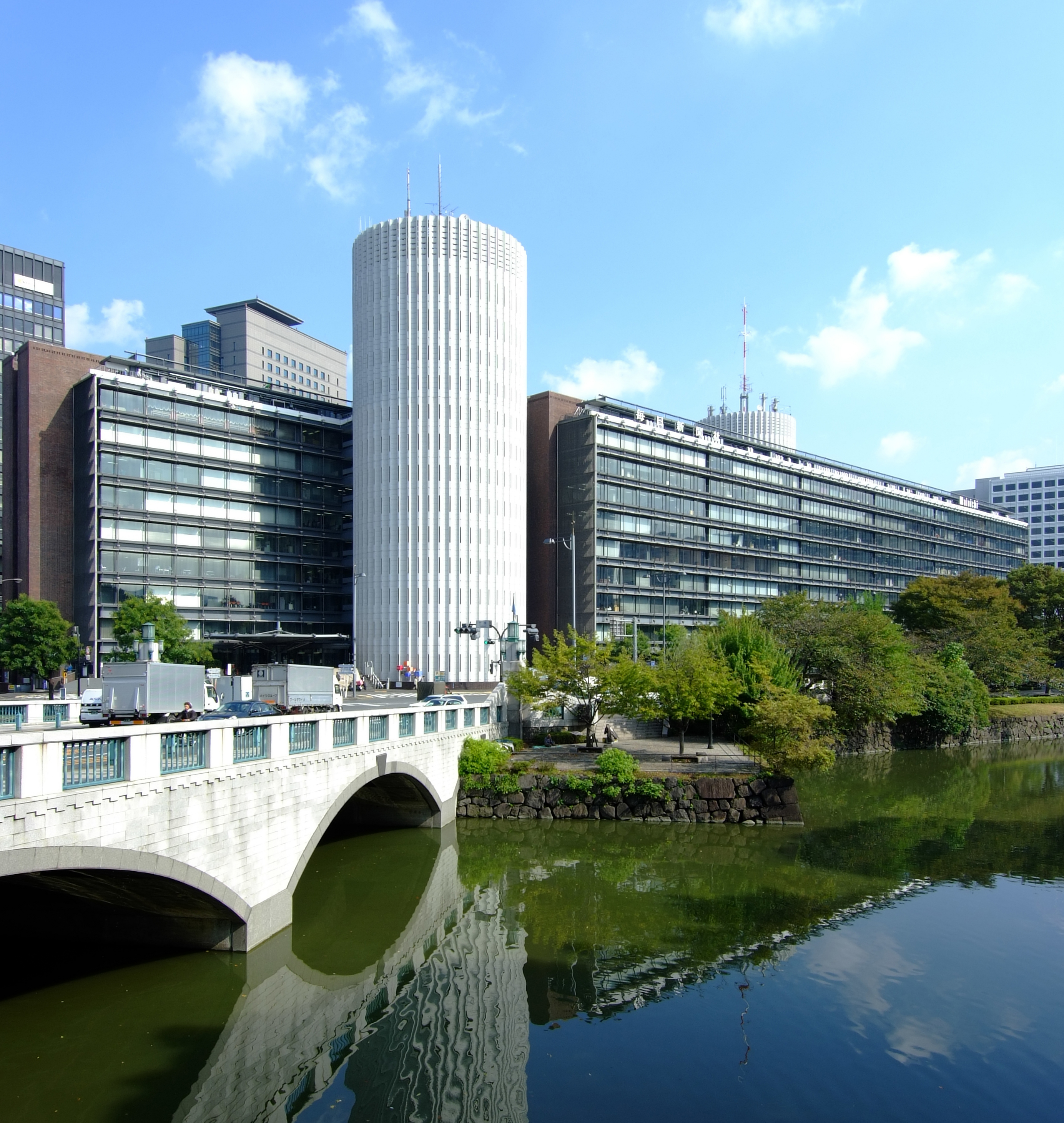 Palaceside Building at Takebashi, Tokyo, Japan. Fujifilm FinePix S5 Pro